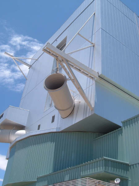 View of the Large Binocular Telescope (the largest telescope) of Mount Graham International Observatory on Mount Graham, Arizona, image taken by Yvette Cendes, copyright 2004